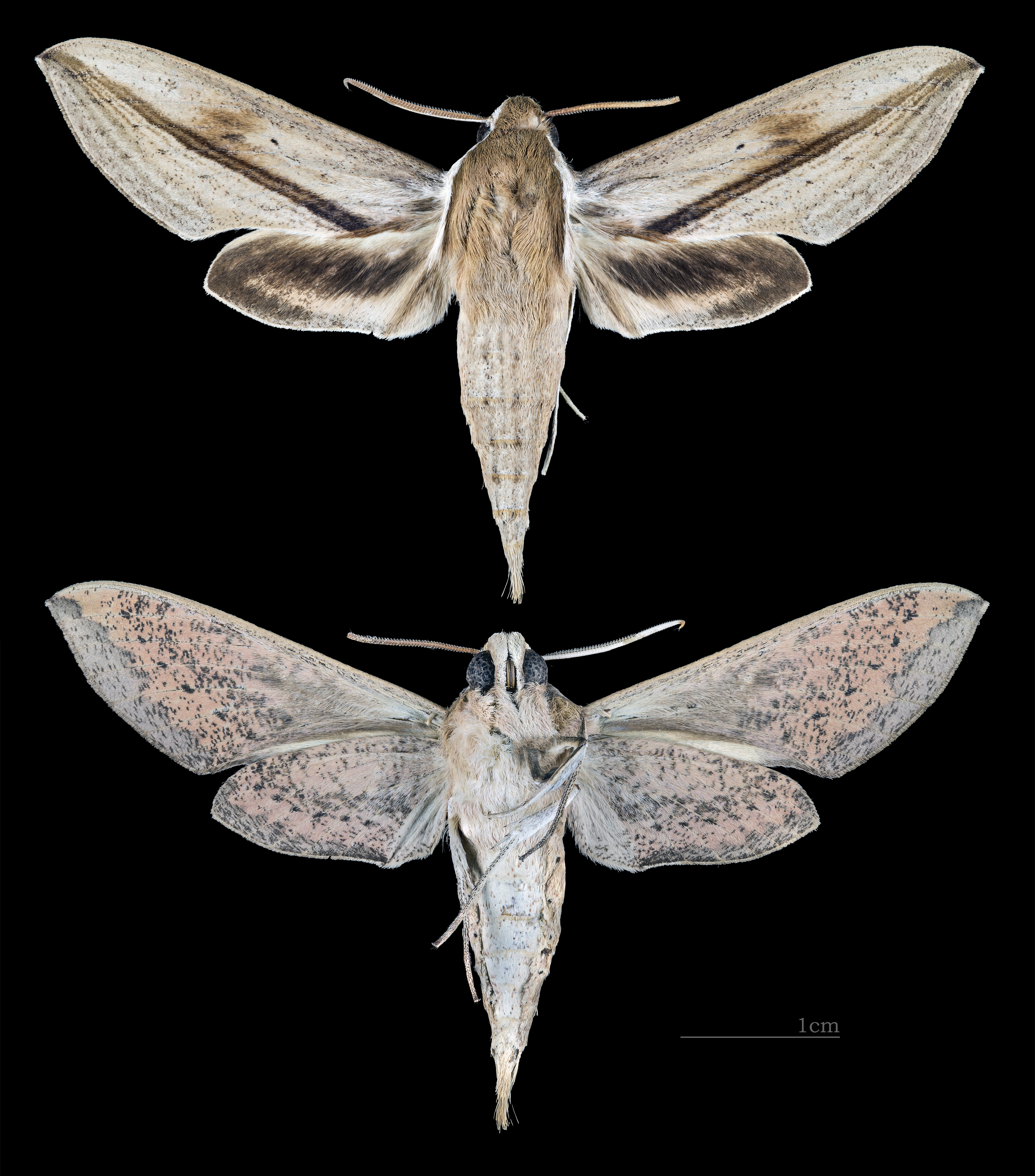 Xylophanes turbata - Two views of same specimen Collection of the Mathematician Laurent Schwartz